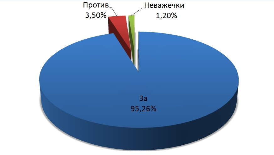 Results of the Macedonian independence referendum, 1991